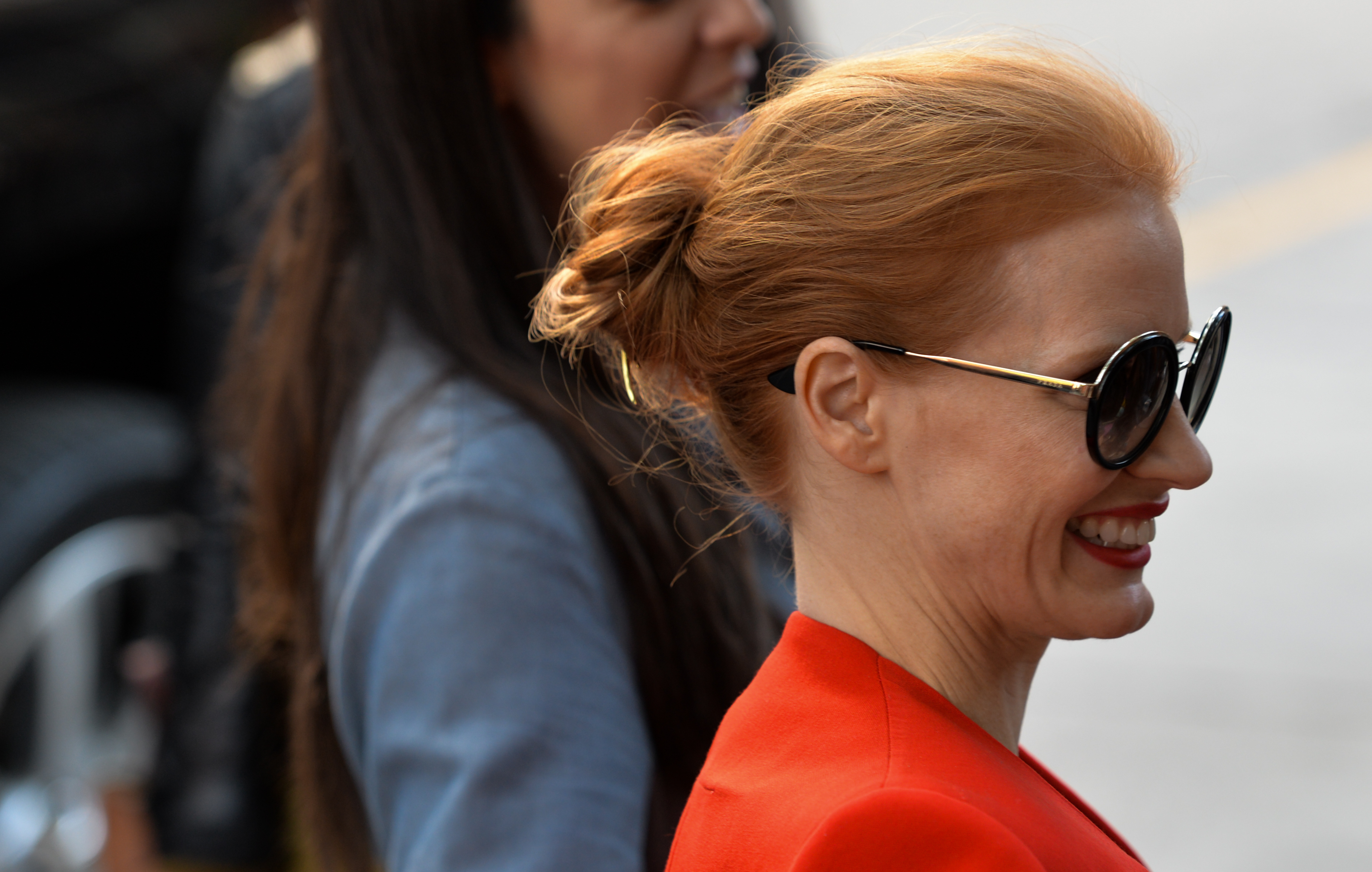 TIFF 2017 Jessica (1 of 1)-6